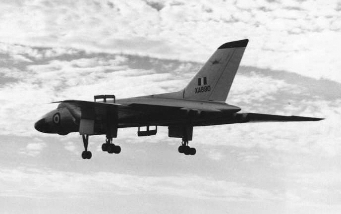 Avro Vulcan B.1 XA890 in early silver scheme